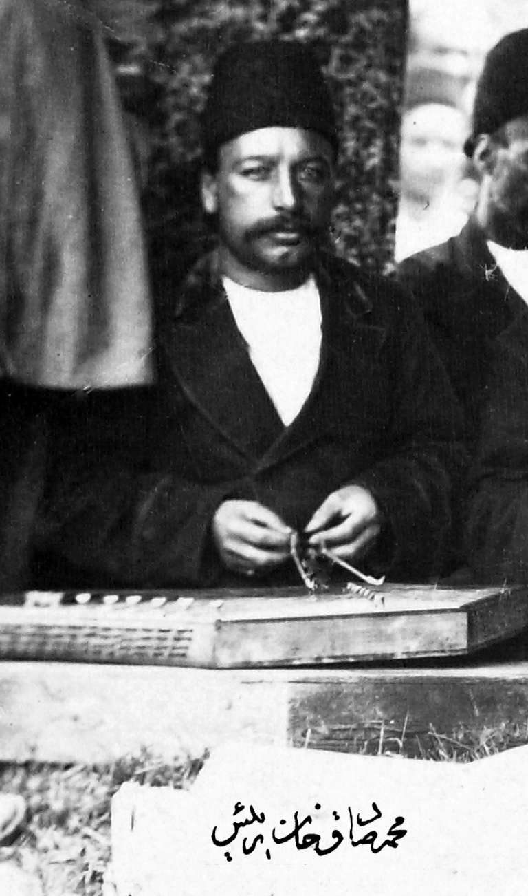 Mohamed Sadeq Khan was one of the famous Persian musicians during the last century